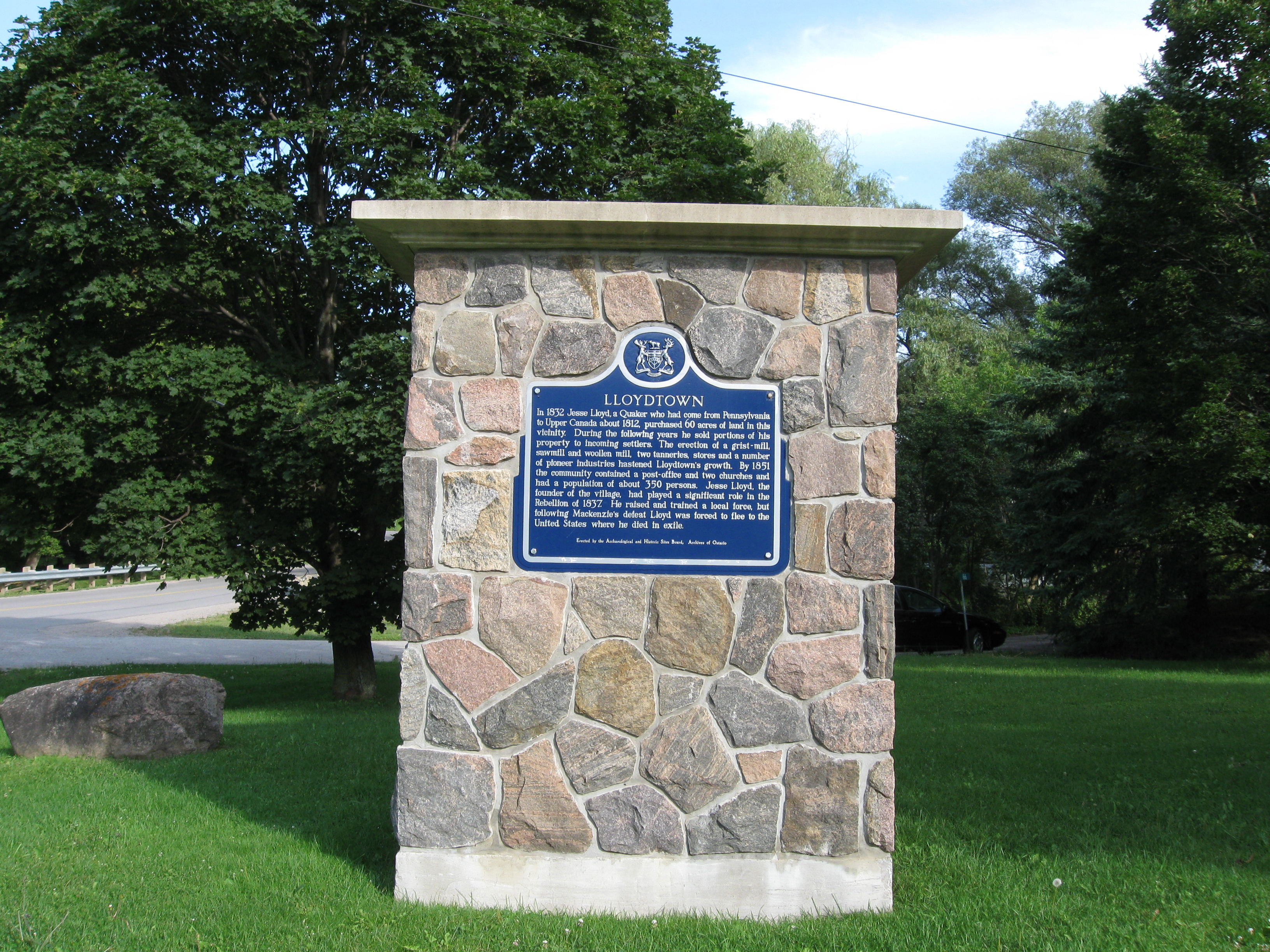 Historical plaque for Jesse Lloyd, Lloydtown, Ontario, at the corner of Rebellion Way and Little Rebellion Rd.